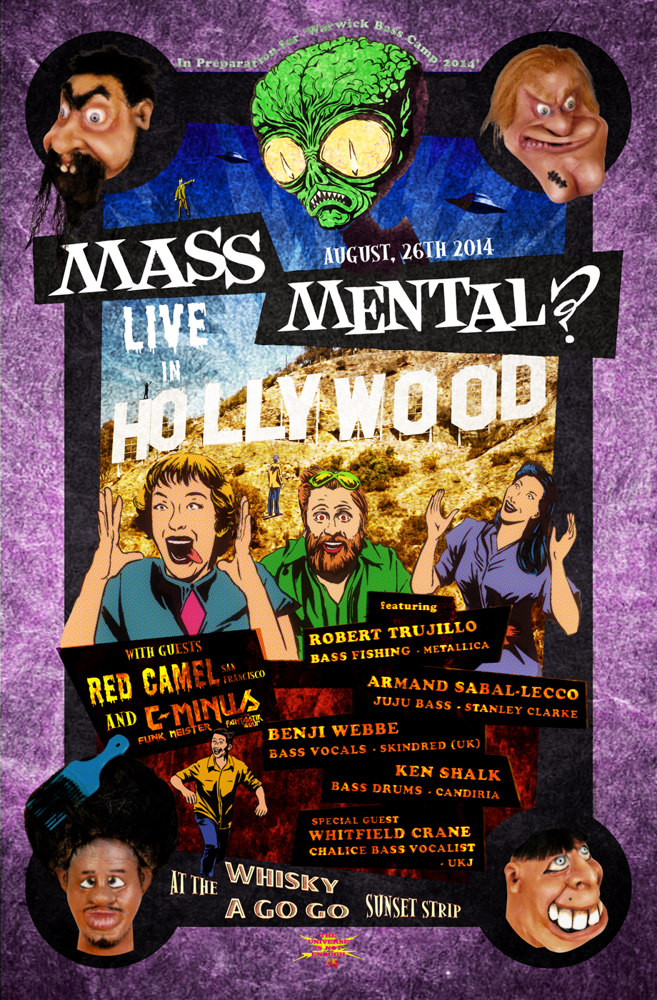 Gig Poster of the Mass Mental show at the Whiskey a Go Go by Marcel Szerdahelyi & Pascal Brun